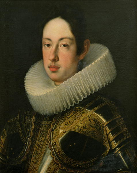 Ferdinando II of Tuscany's young portrait